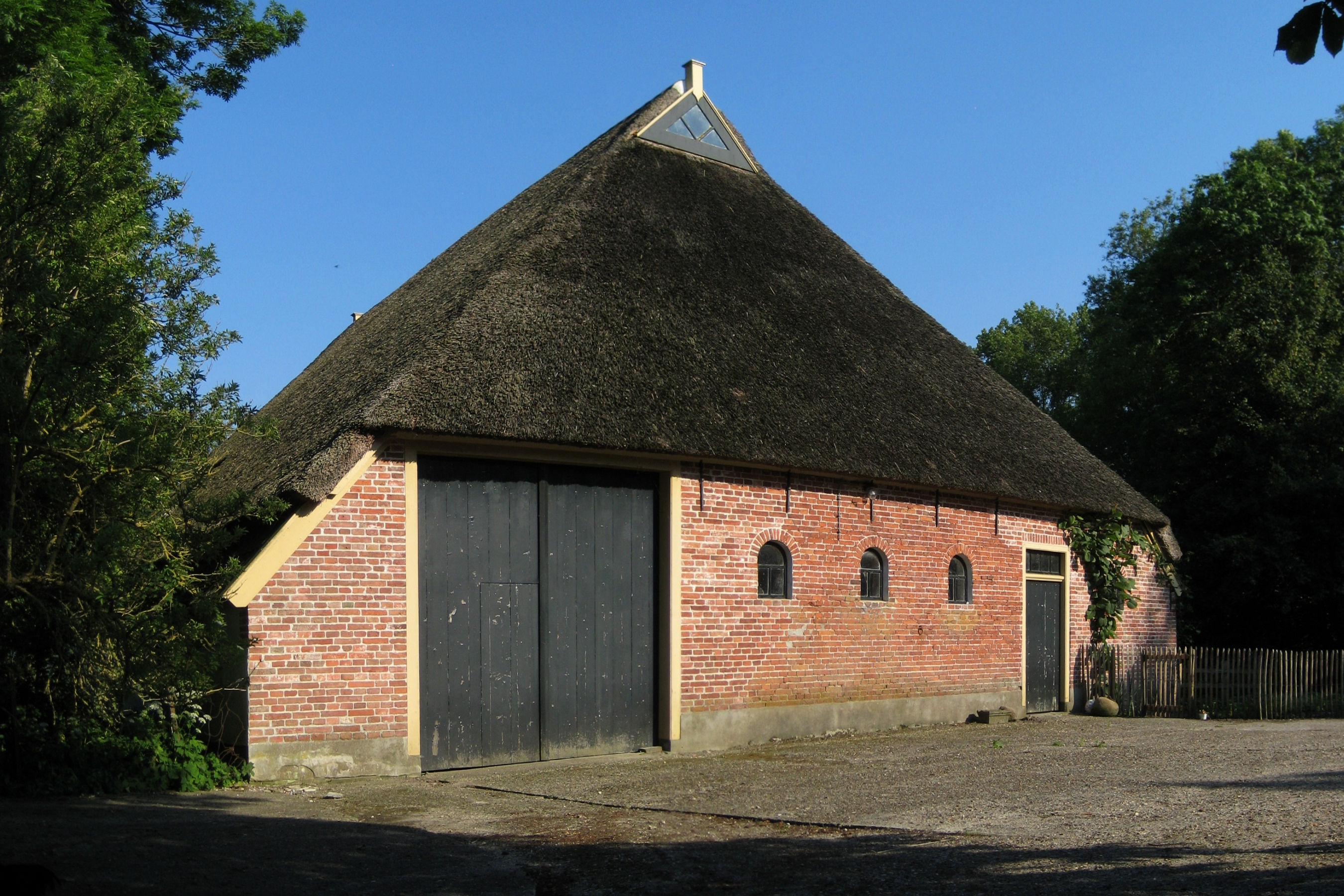 The farm Hunzeroord (1836) in the Dutch municipality of Groningen.